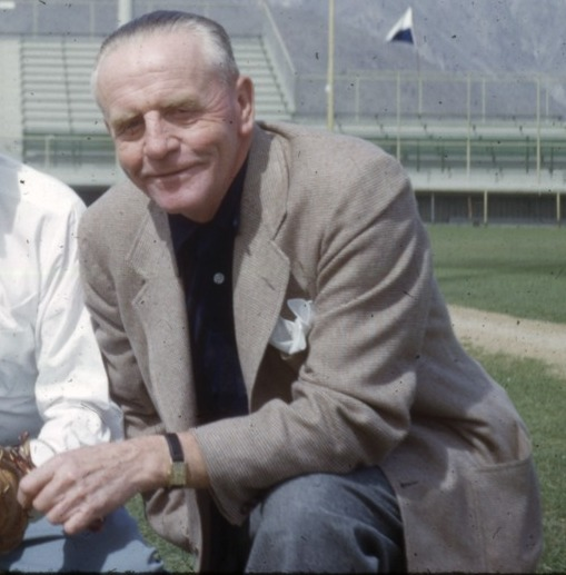 Seattle Rainiers owner Emil Sick, 1953. Apparently spring training in Palm Springs, California.